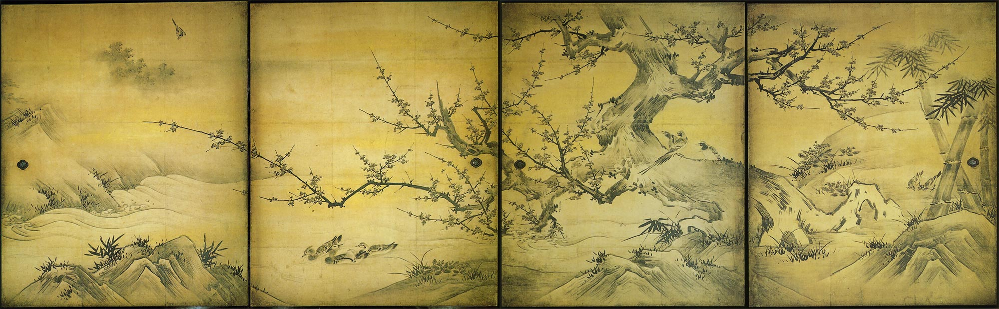 Kanō Eitoku: Flowers and birds of the four seasons, east side, c. 1566, ink and gold on paper, 176x142 y 176x74 cm. Jukō-in, Daitoku-ji, Kyoto